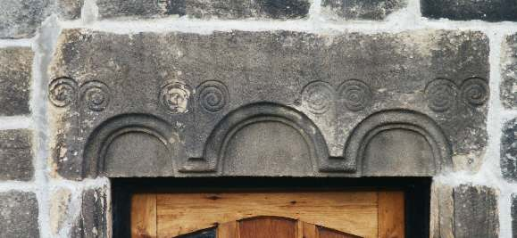 The carved stone lintel above the door of Oakworth Hall. Picture taken by Andy Wade in 2005.